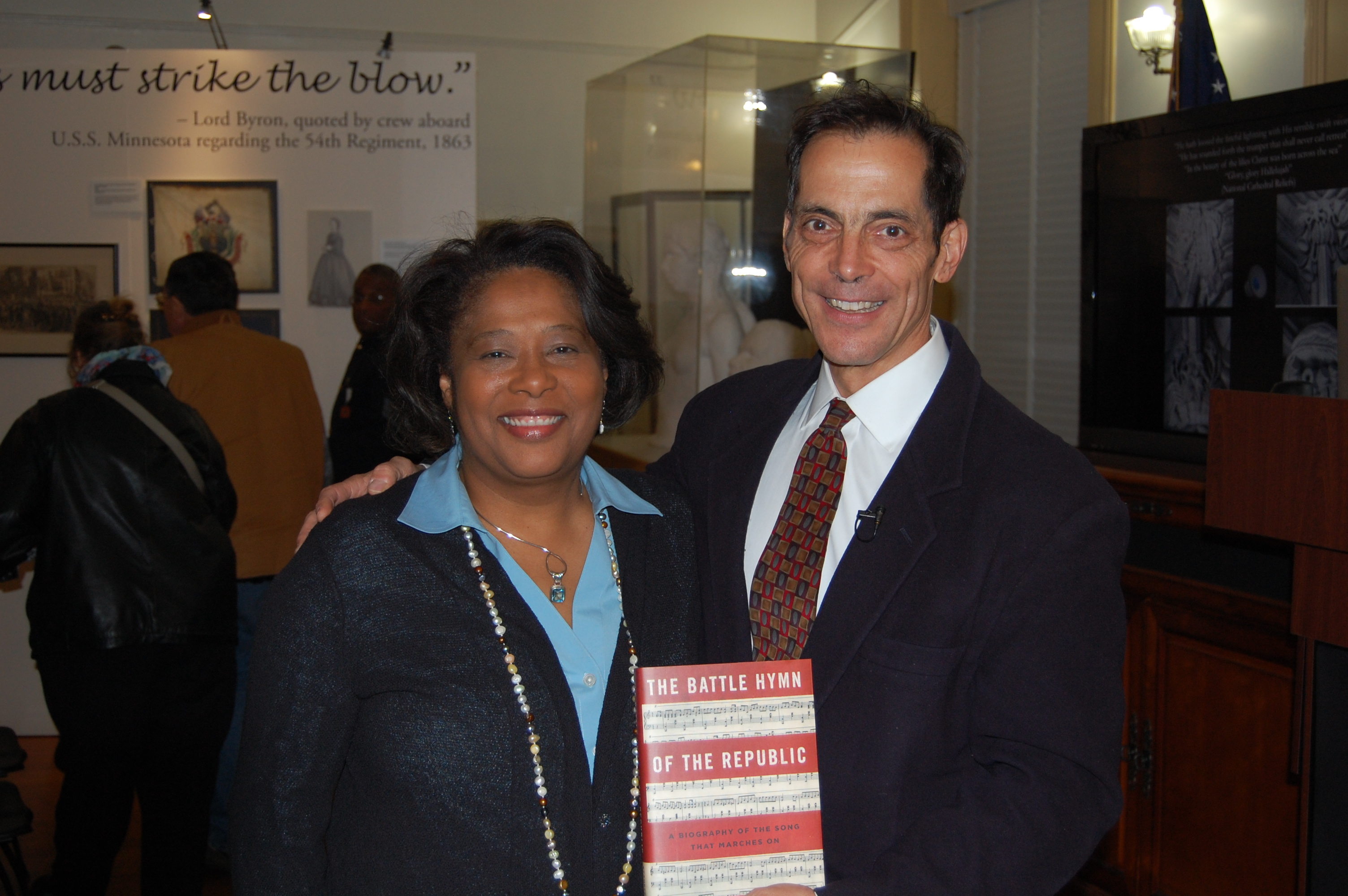 Museum of African American History Director Beverly Morgan-Welch and Dr. John Stauffer after he led a talk about his latest book on the history of the Battle Hymn of the Republic given at the Museum of African American History this past November. Published 2014-02-07.